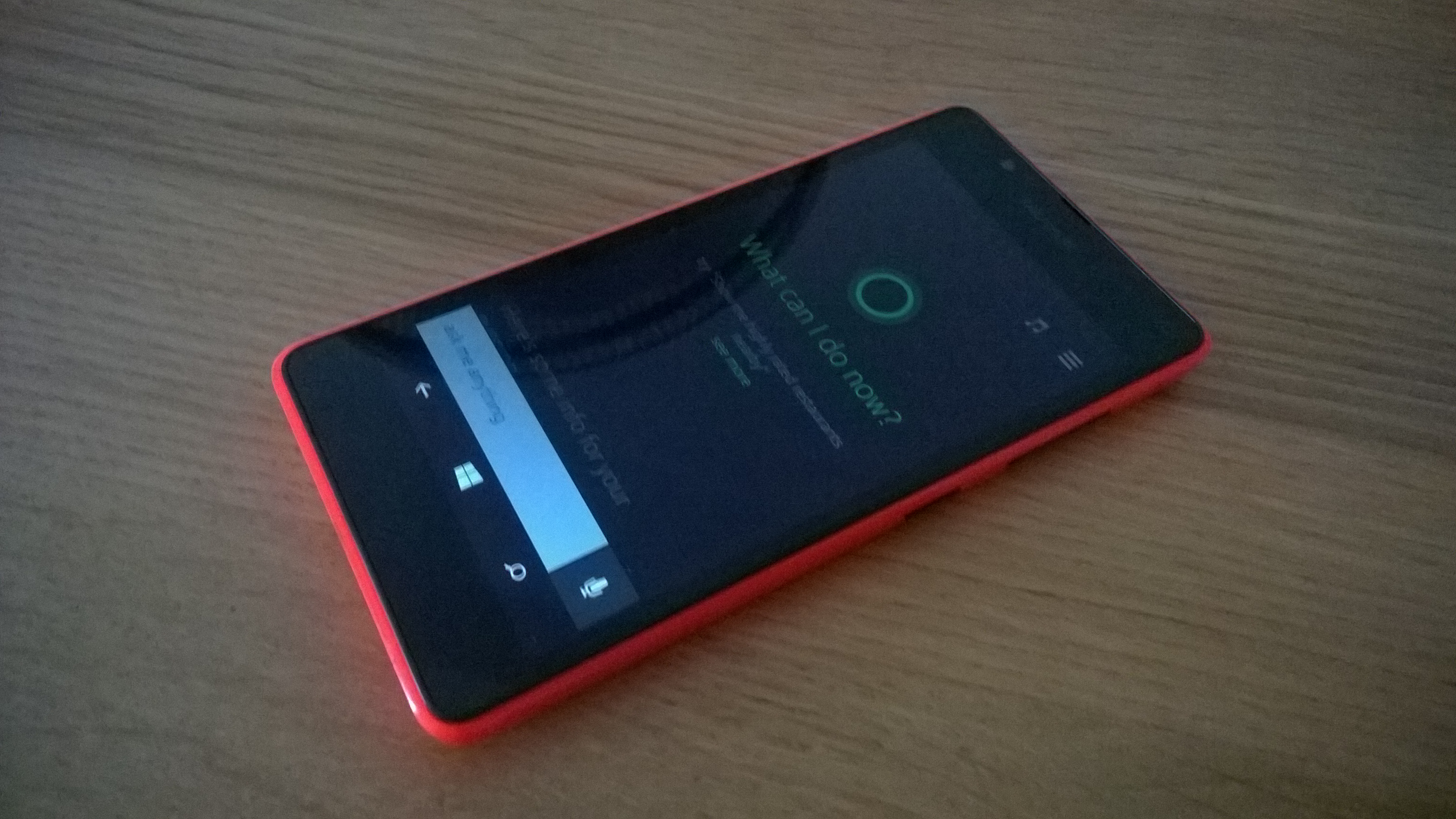 The front of a Microsoft Lumia 540.